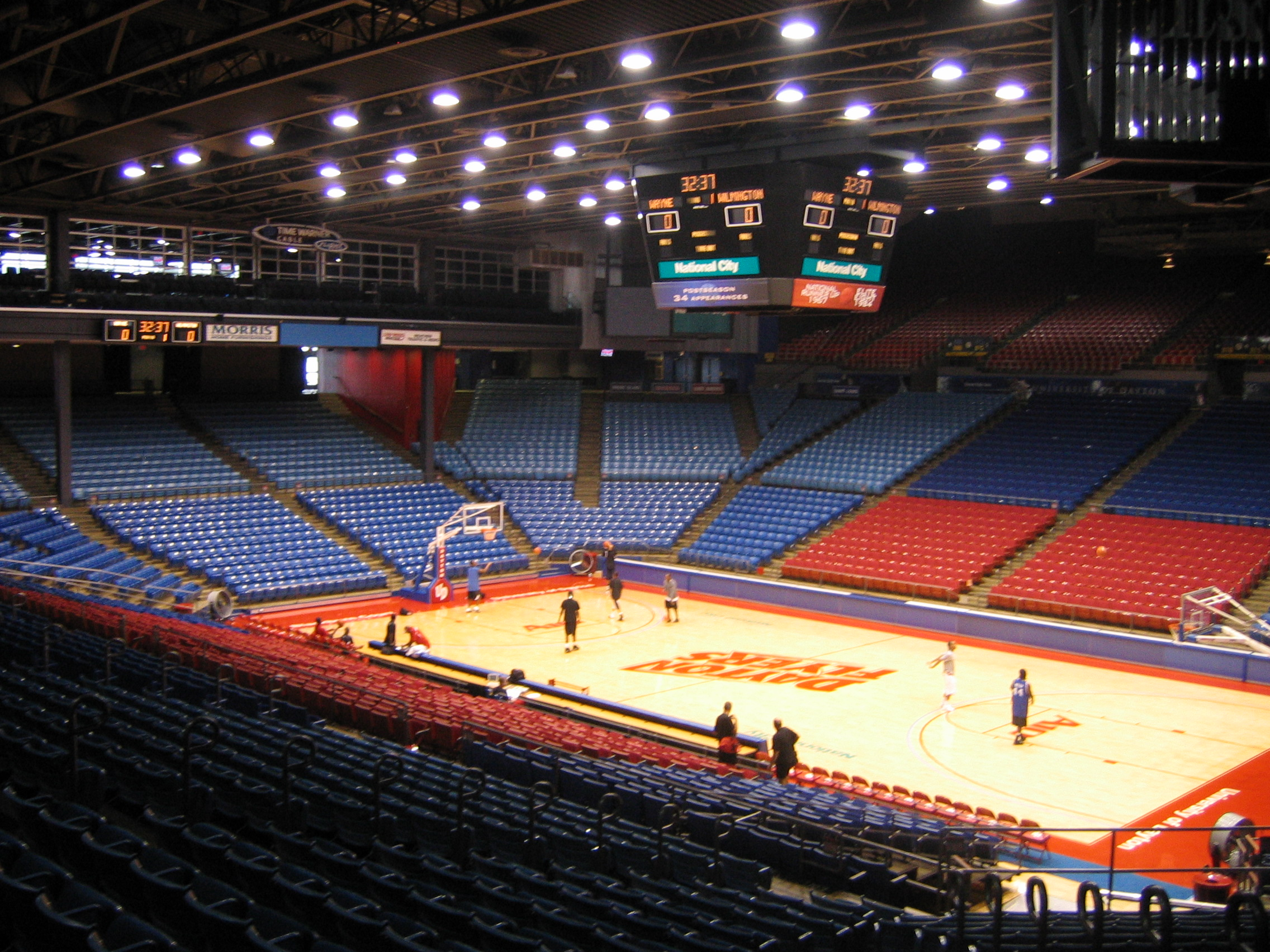 Football & Basketball Facilities U Dayton off-campus Arena